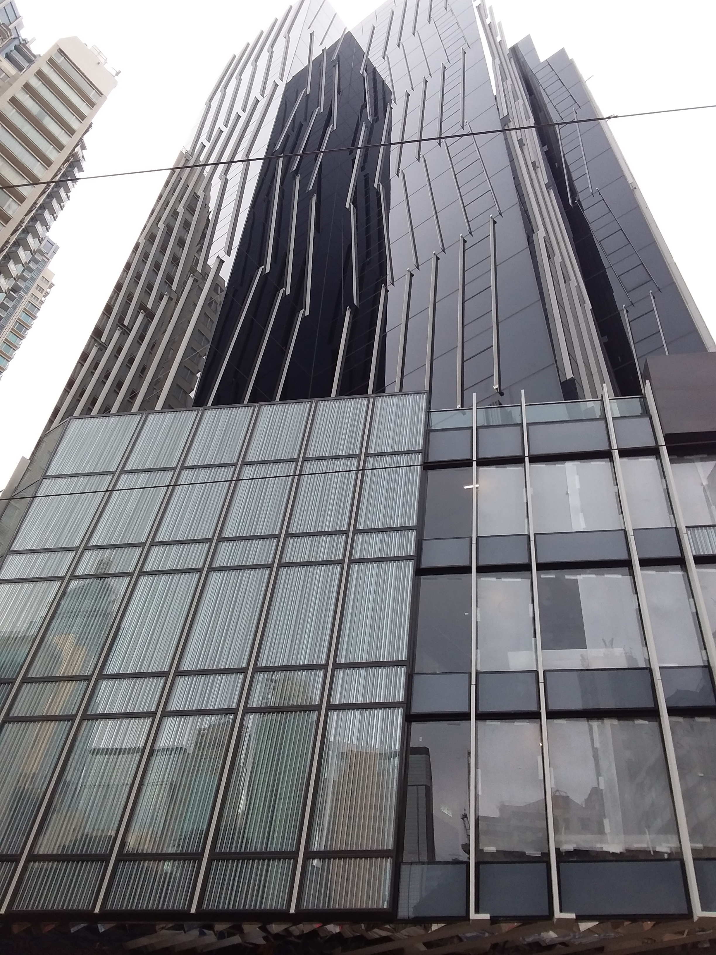 HK SW 灣仔 Wan Chai 莊士頓道 Johnston Road January 2020